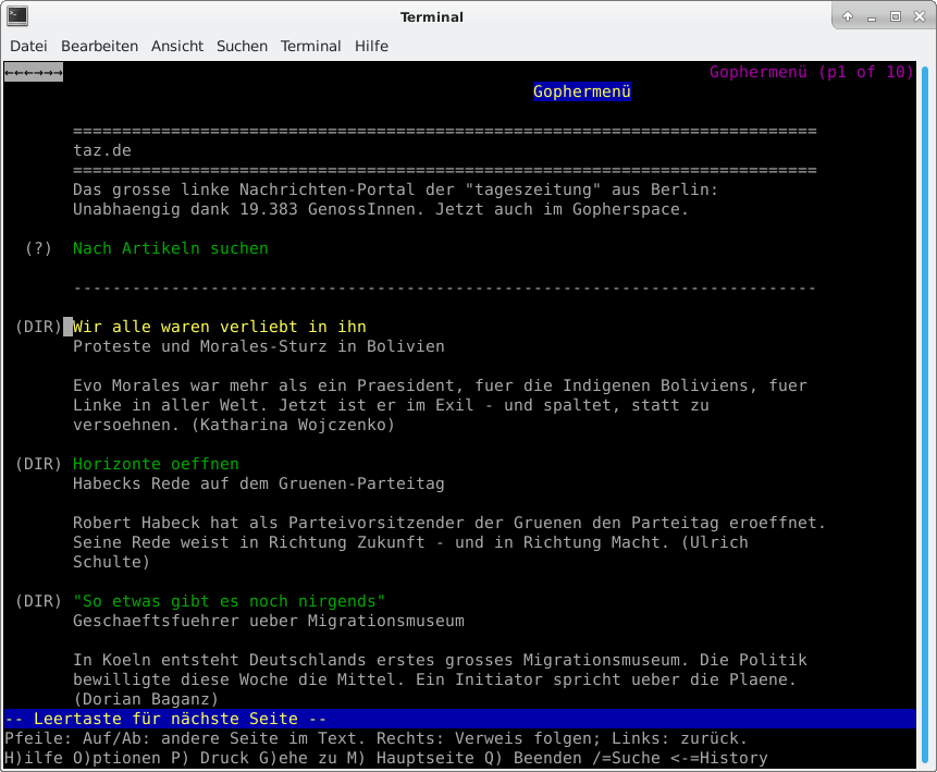 Screenshot (2019-11-16) of newspaper 'taz' at Gopherspace via CLI-browser 'Lynx'(2019-11-16)